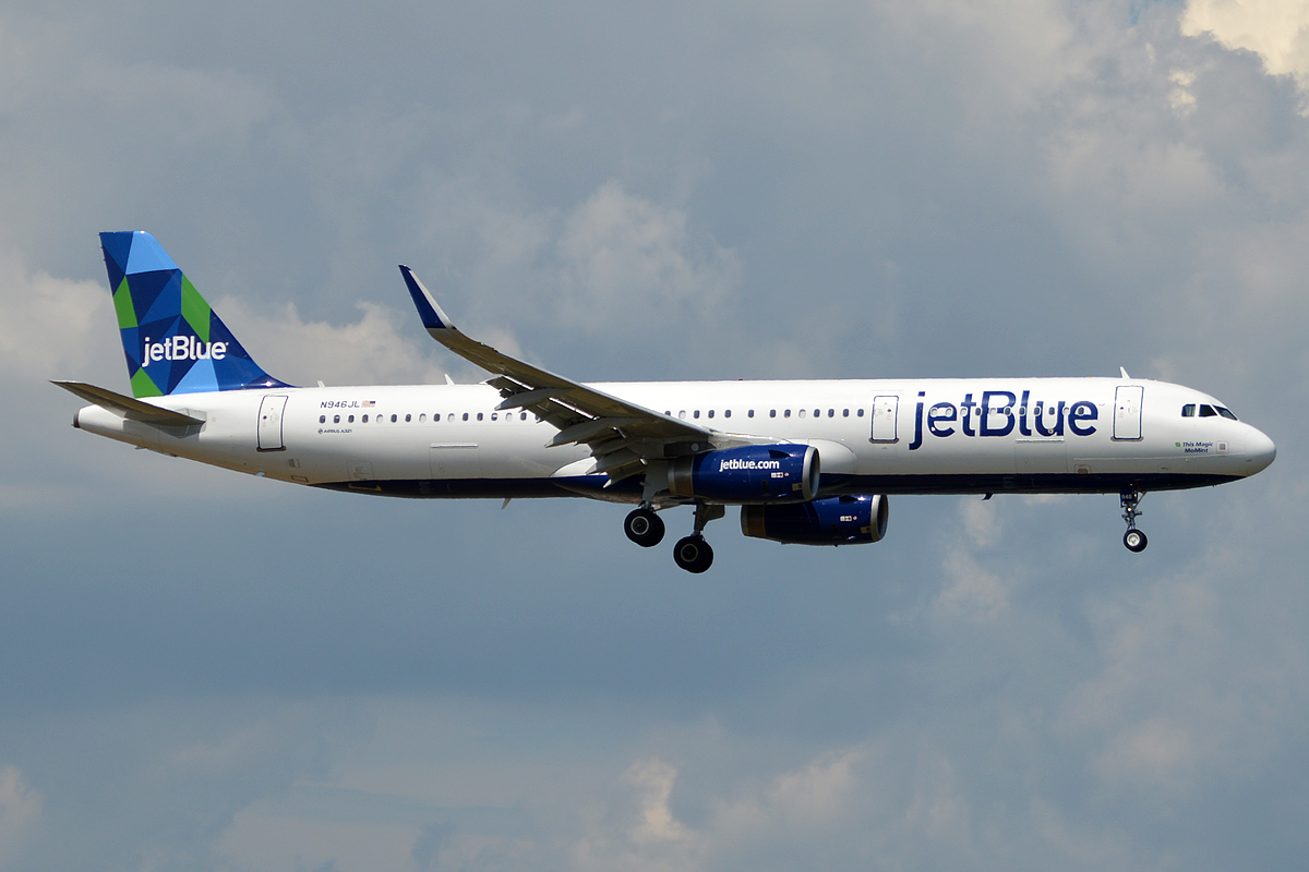 JetBlue Airways, N946JL, Airbus A321-231